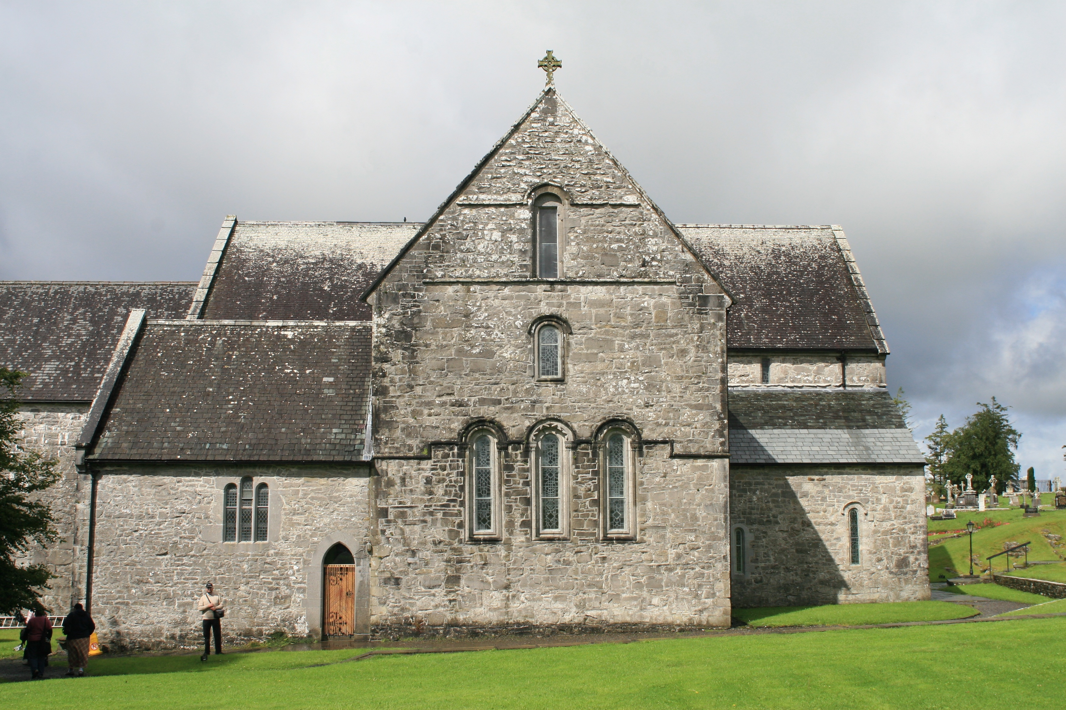 Ballintubber, County Mayo, Ireland East range of Ballintober Abbey